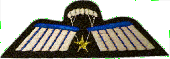 Para Wing SLS Netherlands